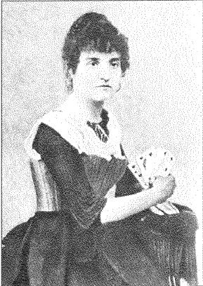 A portrait of Maddalena, Charles Godfrey Leland's informant while he was researching Italian folk witchcraft traditions.